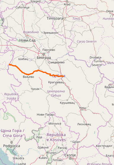 OpenStreetMap of State Road 27 in Serbia.